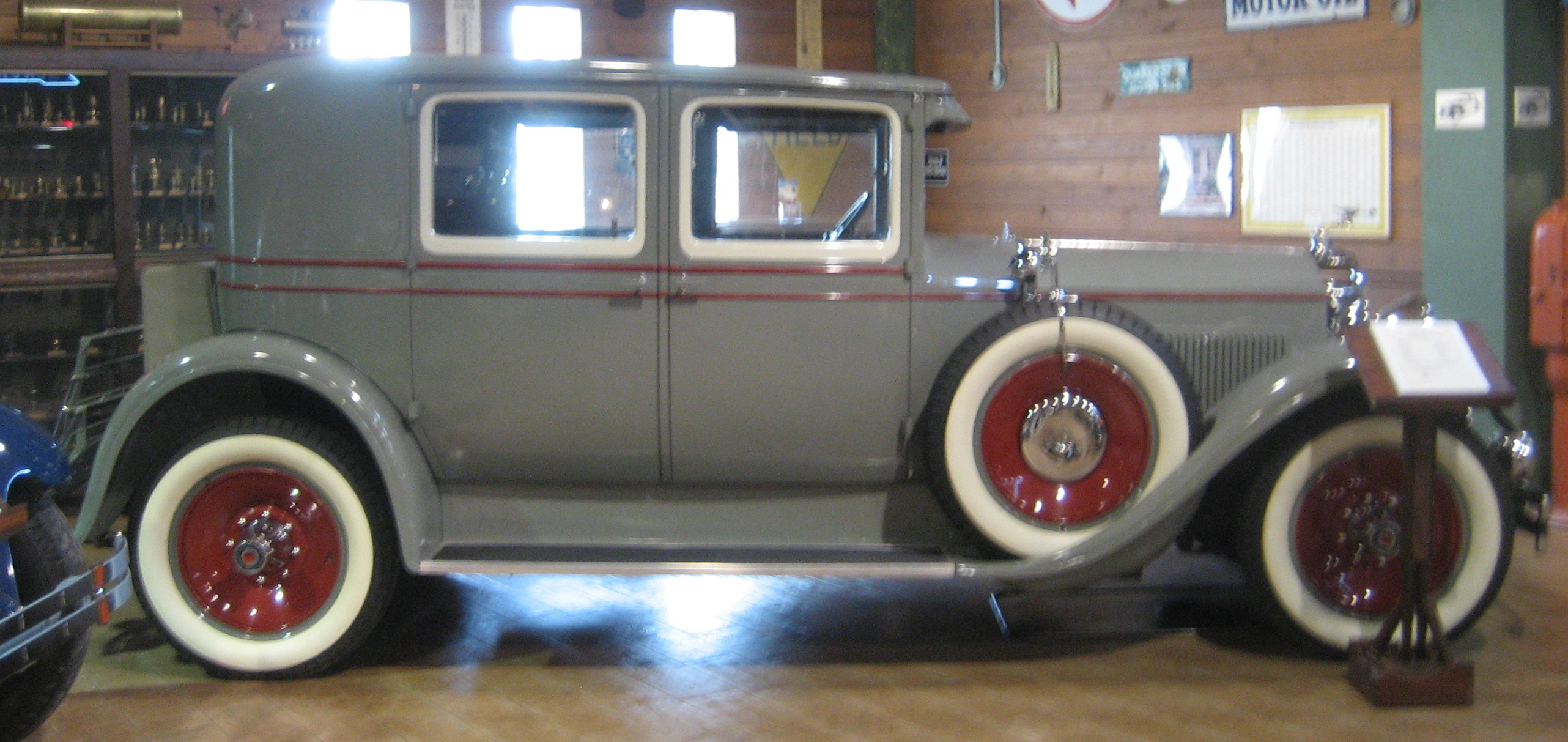 1929 Packard 633 Close Coupled 5 Passenger Club Sedan On display at Fort Lauderdale Antique Car Museum.